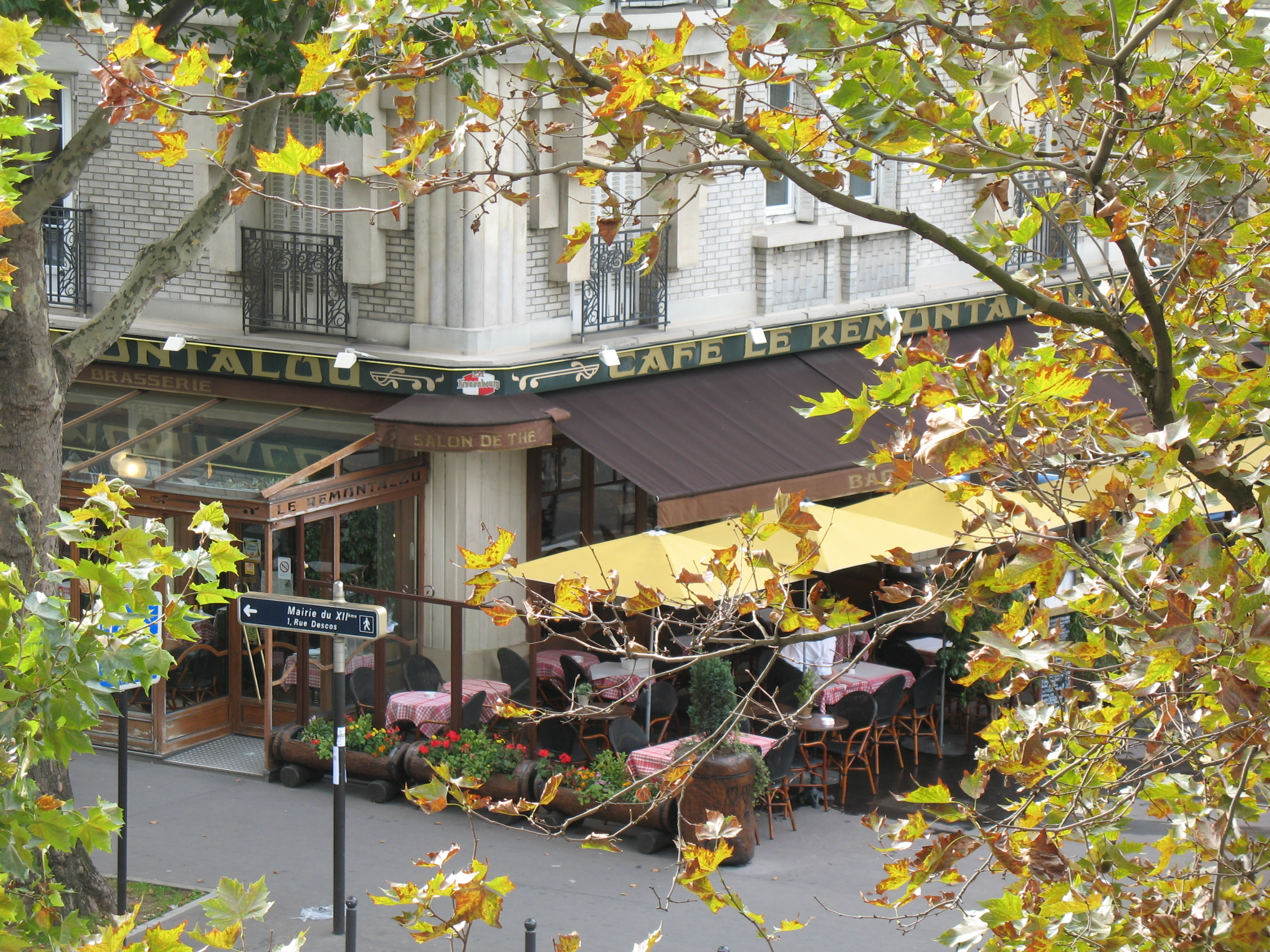 View of a café from Promenade plantée in Paris.